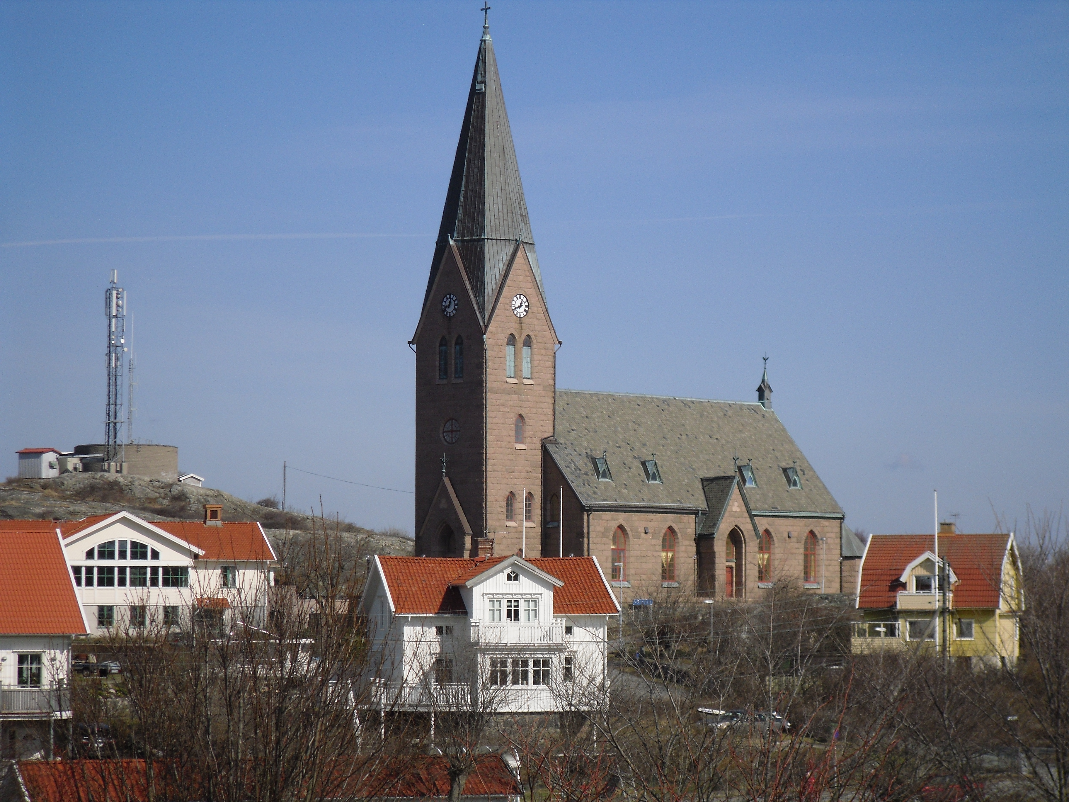 Öckerö new church, Öckerö, Sweden